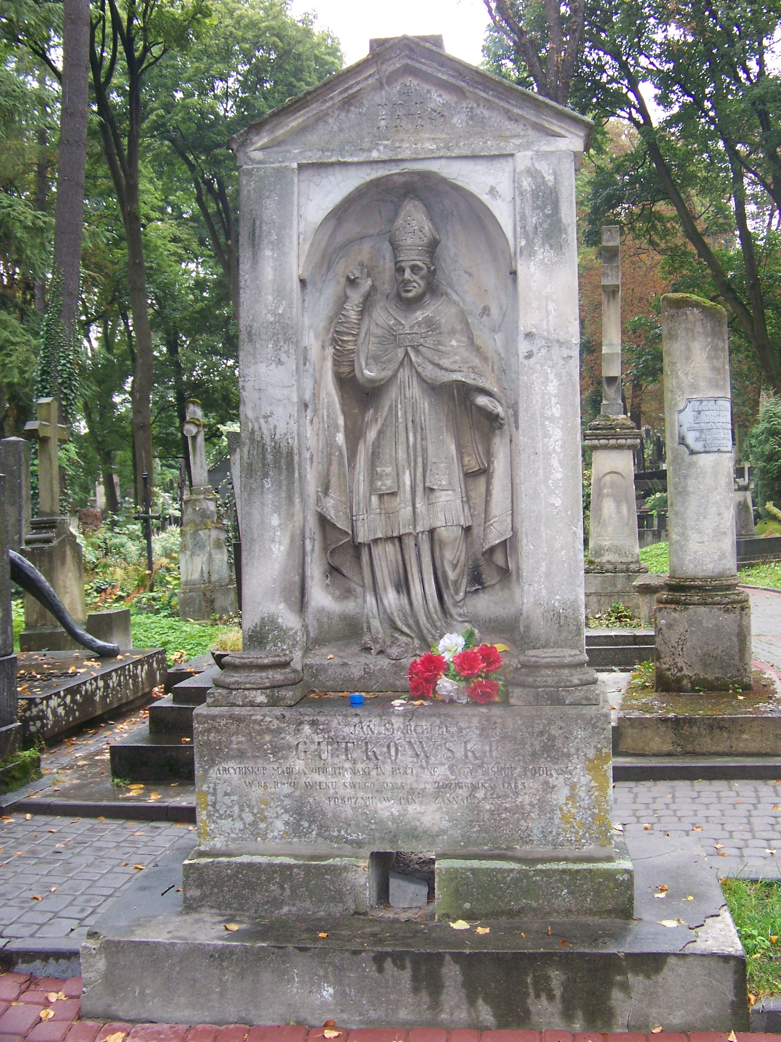 Łyczaków cemetery, tomb of archbishop Jan Marceli Gutkowski